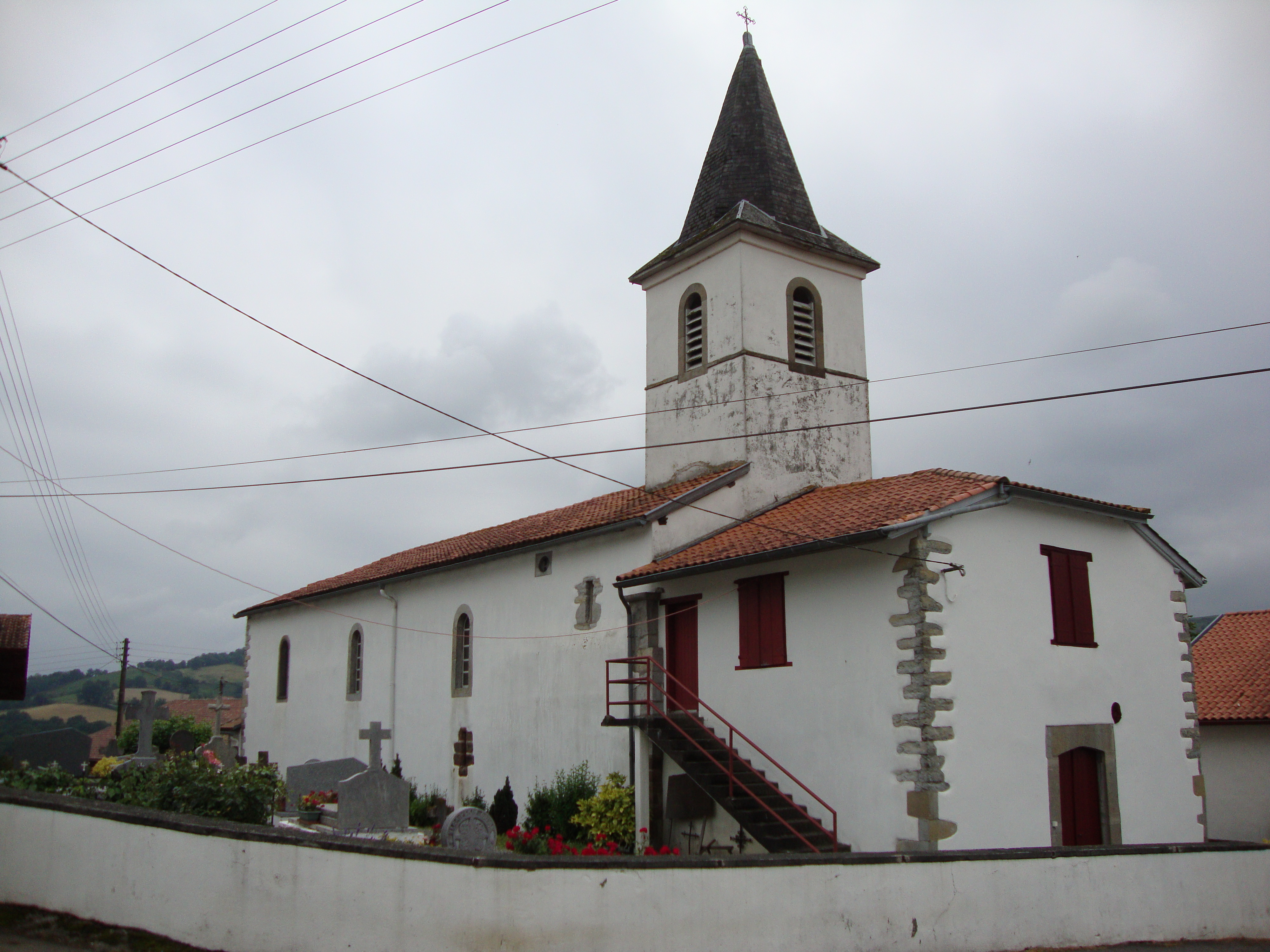 Béhaune (Lantabat, Pyr-Atl. Fr) church